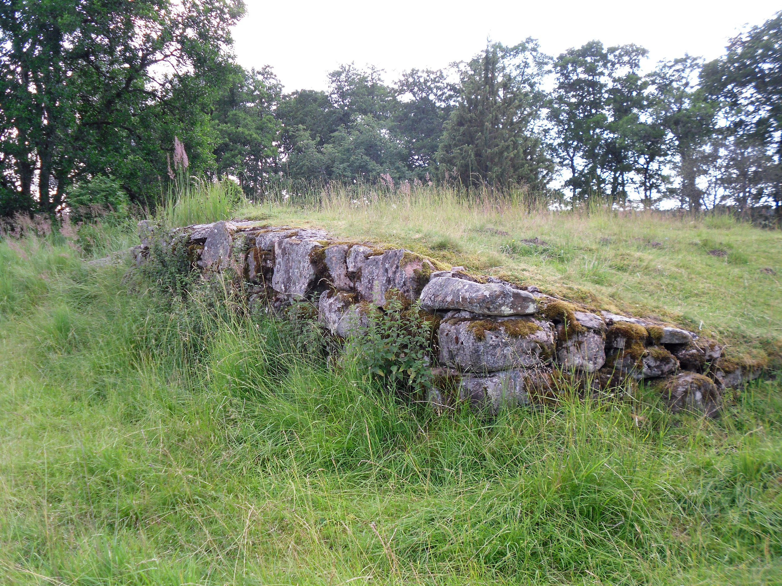 Vädersholm castle ruin, Västergötland, Sweden.